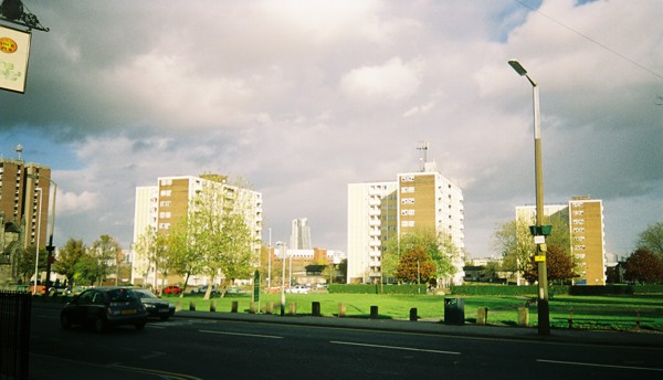 A view of Holbeck Moor.